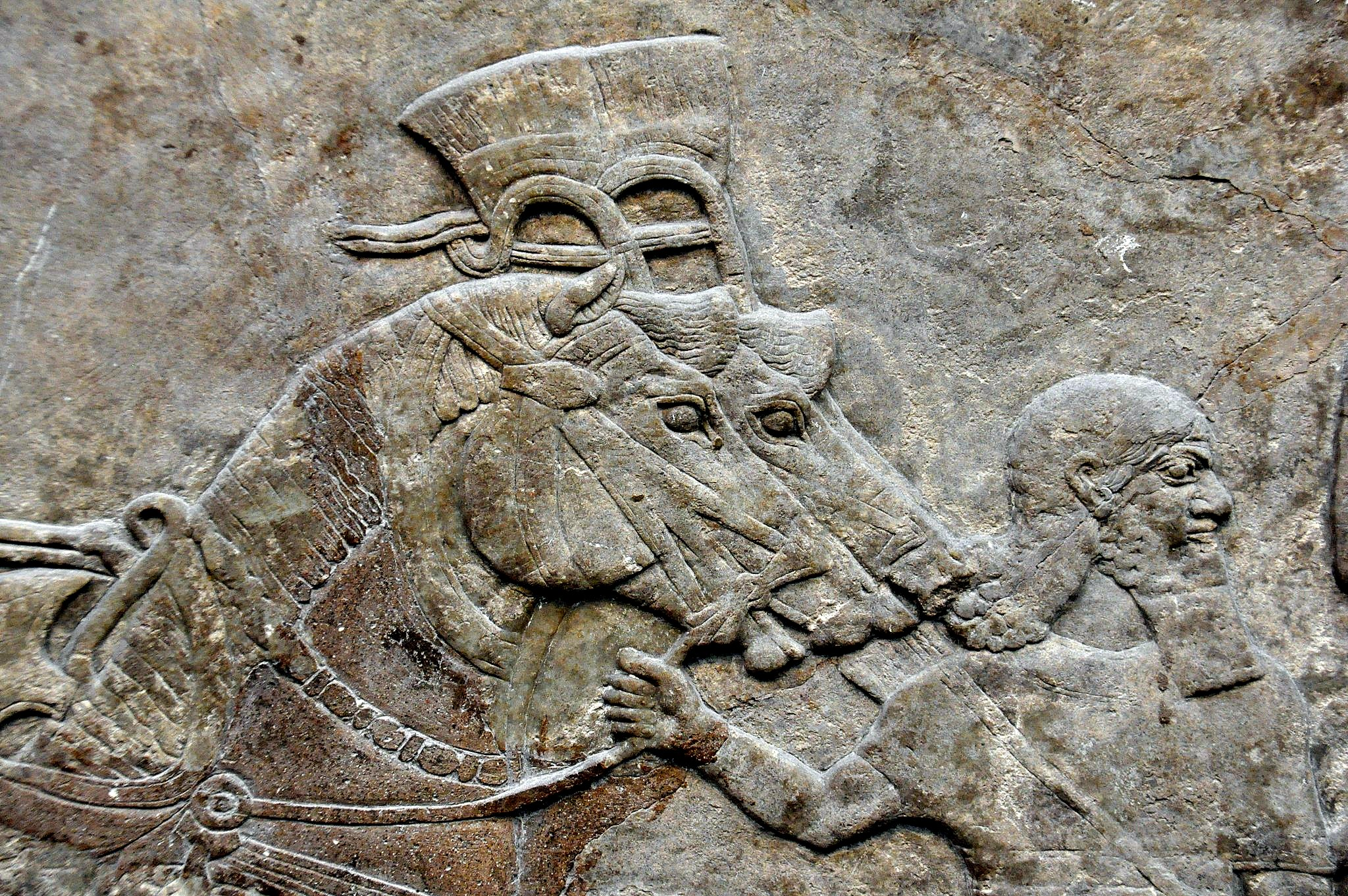 Assyrian grooms and their horses. Alabaster bas-reliefs from Room B (the Throne Roon) at the North-West Palace of Ashurnasirpal II, Nimrud, Iraq. 9th century BC. The British Museum, London.